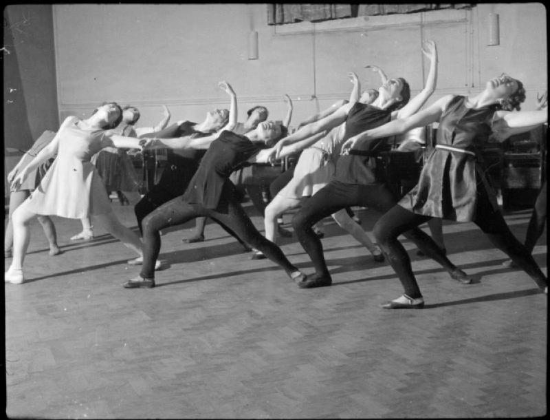 Morley College in Wartime- Everyday Life at Morley College, Westminster Bridge Road, London, England, UK, 1944 Students sweep their arms and heads back during a classical dancing class at Morley College.